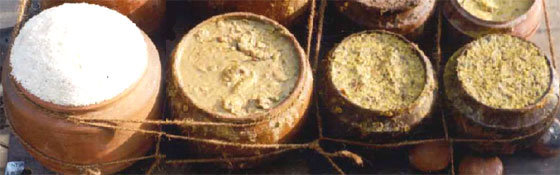 Offerings of Jagannath at Puri